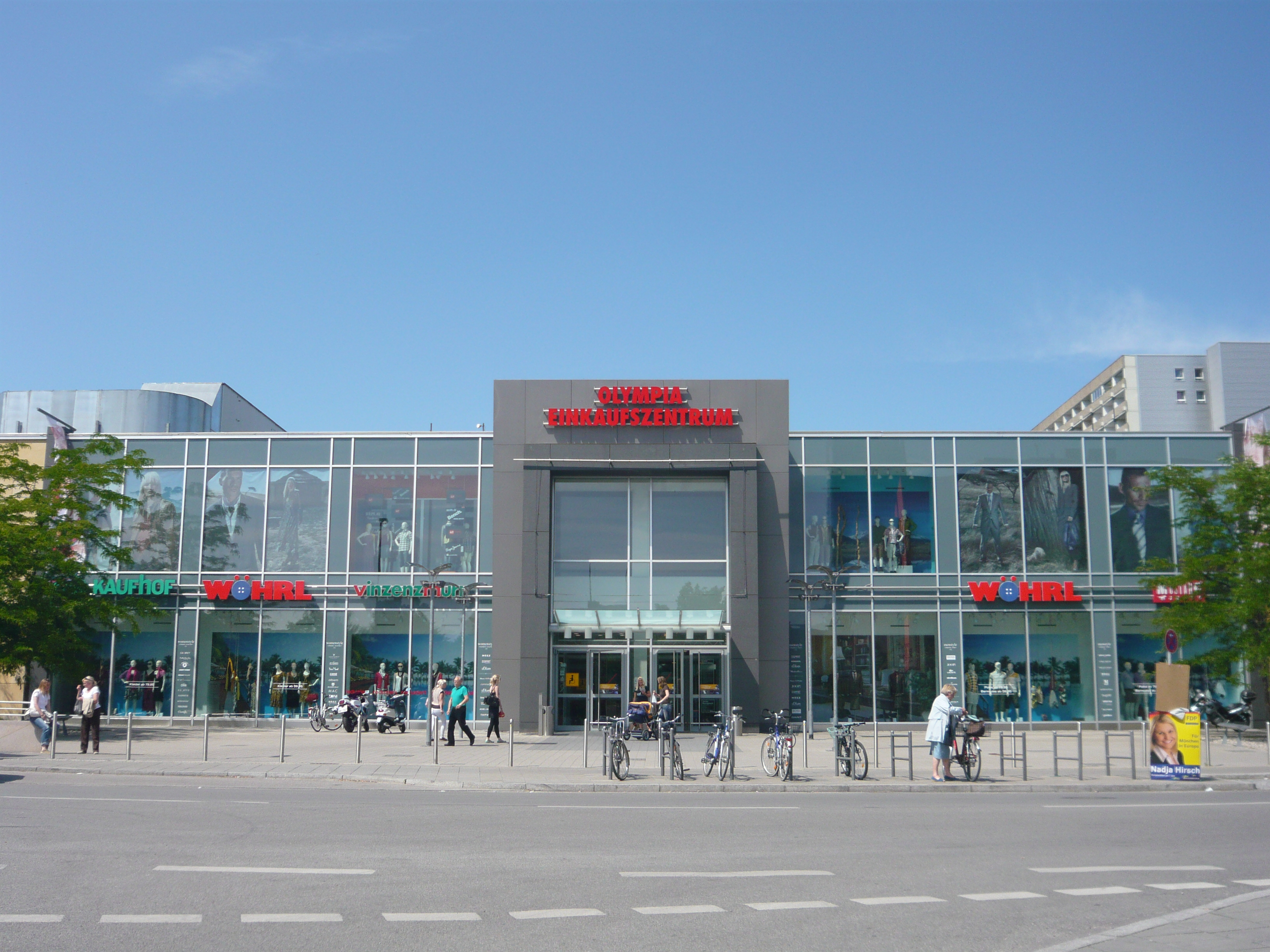 Olympia-Shopping Center, Munich – Architects (extension & modernisation 1994): Hans Baumgarten and Curt O. Schaller